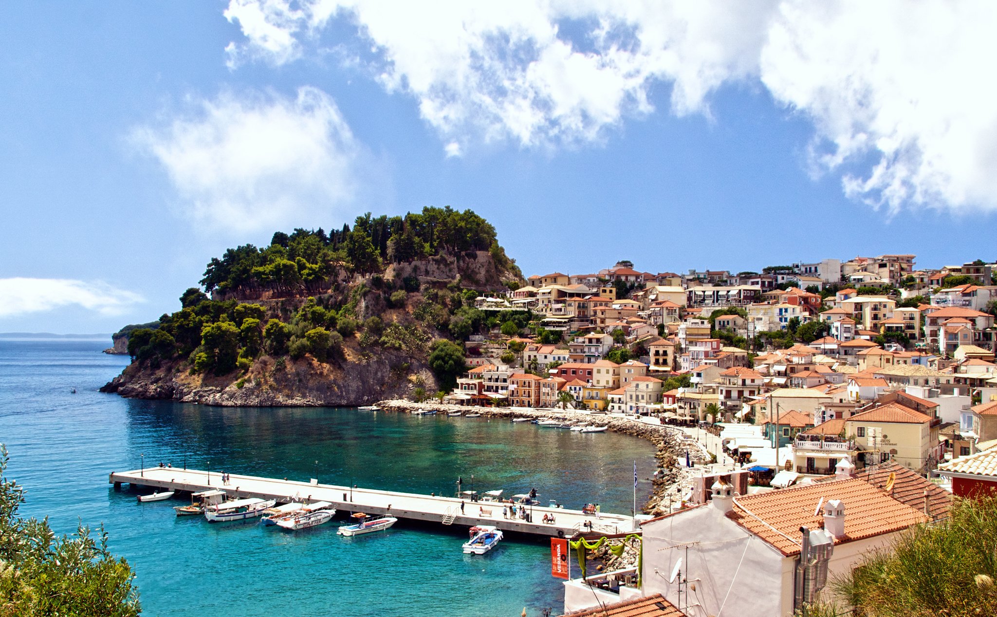 Panorama of Parga